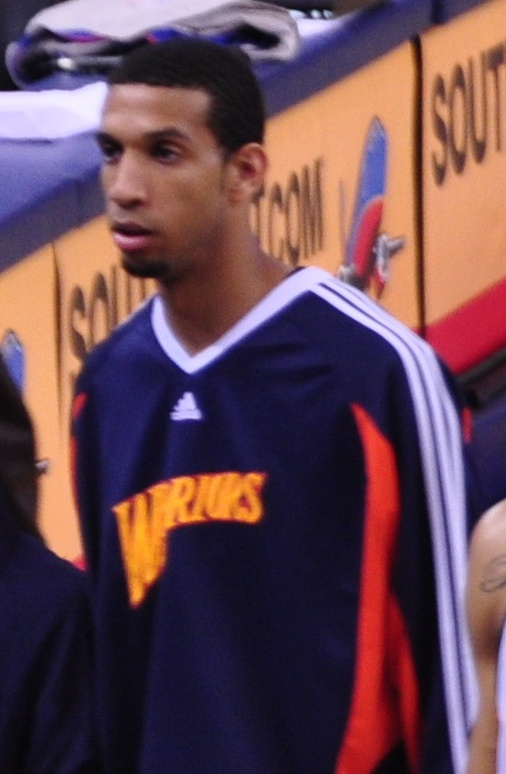 Marco Belinelli (far left), Brandan Wright, Anthony Randolph (4), Jermareo Davidson